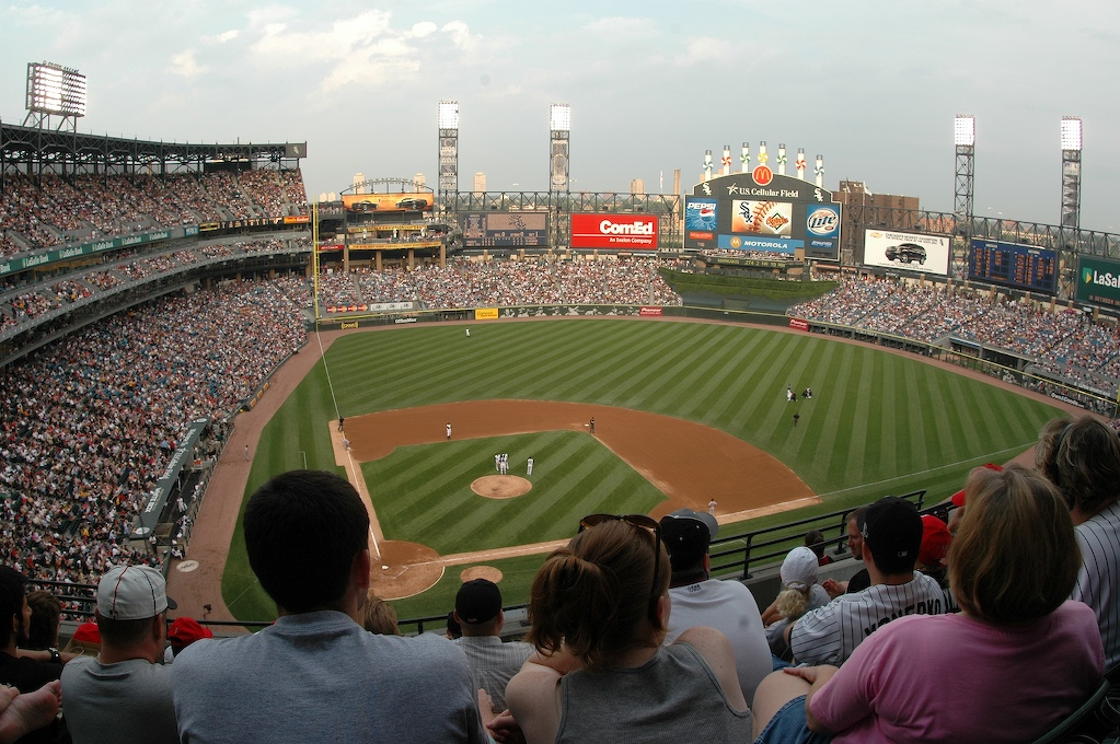 Enoch Lai, Nikon d70, US Cellular Field in Chicago, IL. 14:18, 10 July 2006 . . Enoch Lai . . 1023×680 (358 KB)